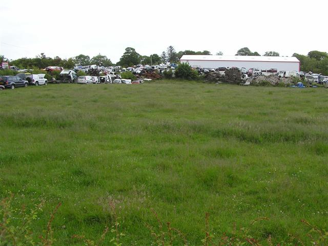 Ballaghmore Townland, near to Conogher and Dervock, Ireland. I hope my wee racer doesn't end up here.